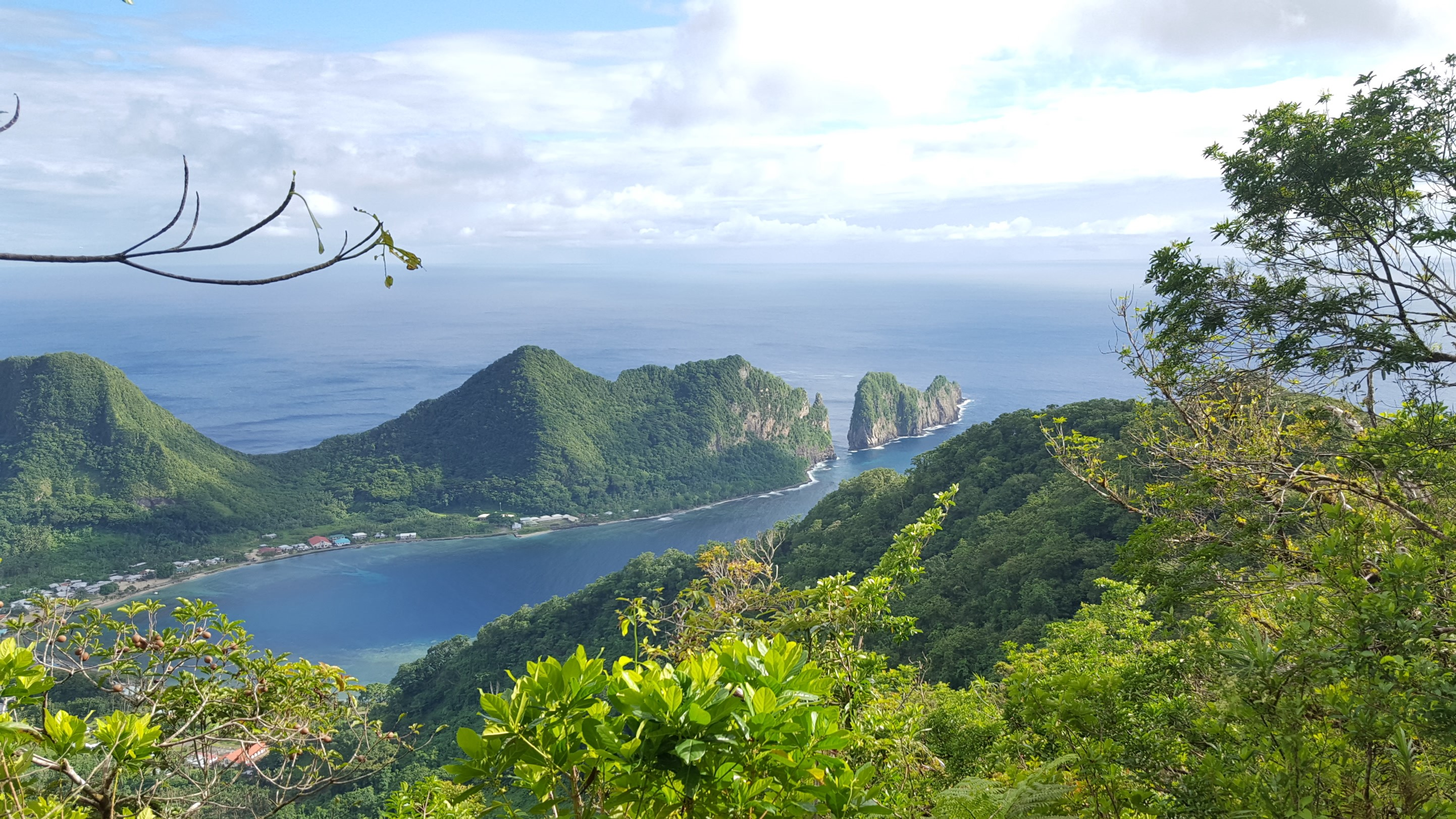 A view of Pola Atai, near Vatia, taken from the Mount Alava Adventure Trail in the National Park of American Samoa.